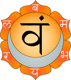 Illustration of Swadhisthana Chakra. (this picture probably contain inversion) This diagram shows the seed sound of the chakra, vam, and the six Sanskrit letters on the petals, ba, bha, ma, ya, ra, and la. The tattwa for the element of Water is shown as a silver crescent. The colour scheme was chosen to reflect this chakra's assosciation with the colours orange and silver.